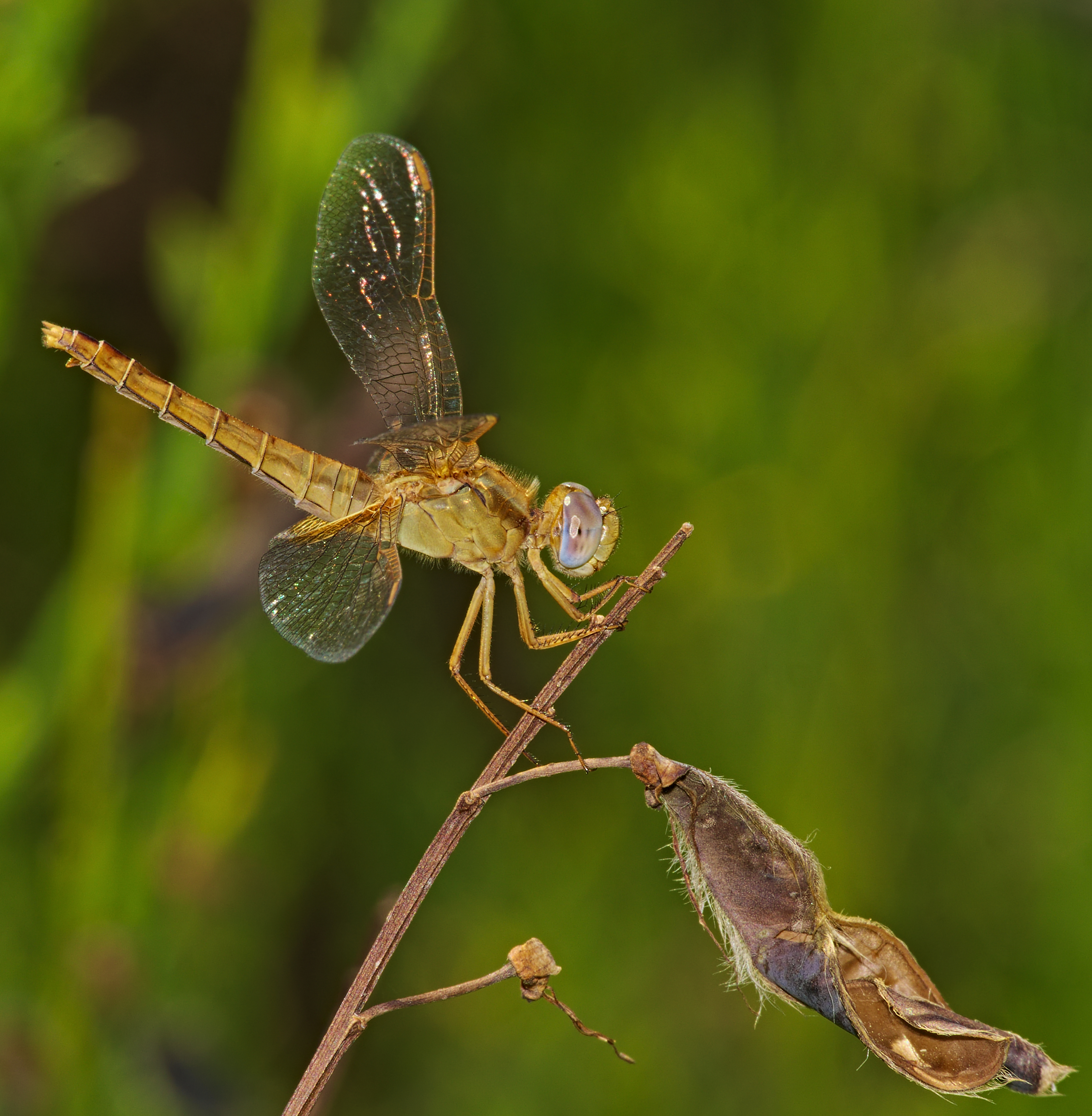 Scarlet dragonfly - Crocothemis erythraea, female. Taken in Viernheim, Hesse, Germany.